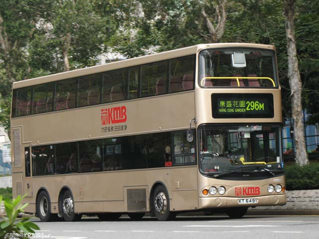 Volgren CR223LD bodied Volvo Super Olympian - B10TL (KT 6491, built 2002) in Hong Kong, China. KMB Route 296M.